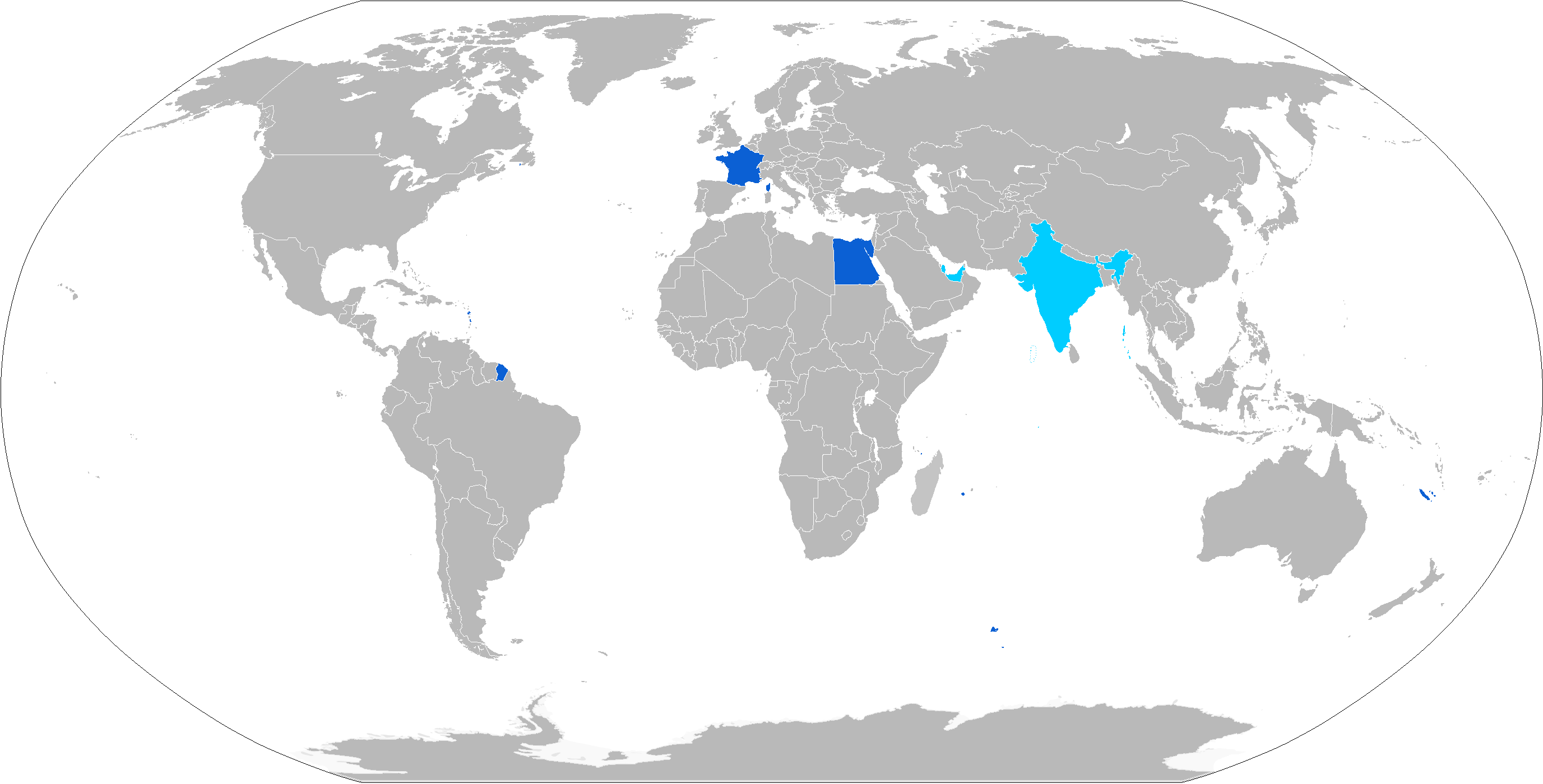 Map with Dassault Rafale operators in blue, with orders in cyan.